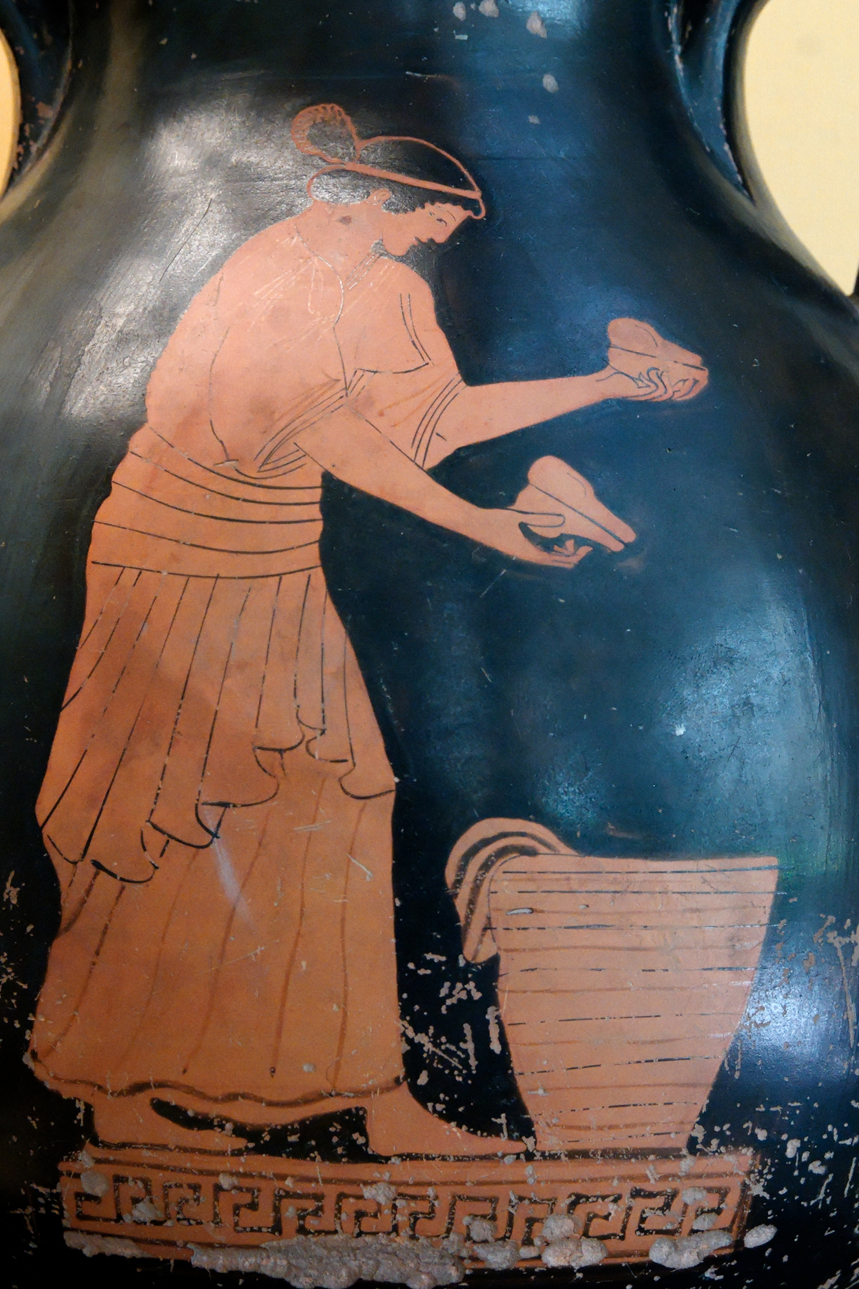 A street vendor offering fruits and pastries stacked in a great basket. Side A of an Attic red-figure pelike.